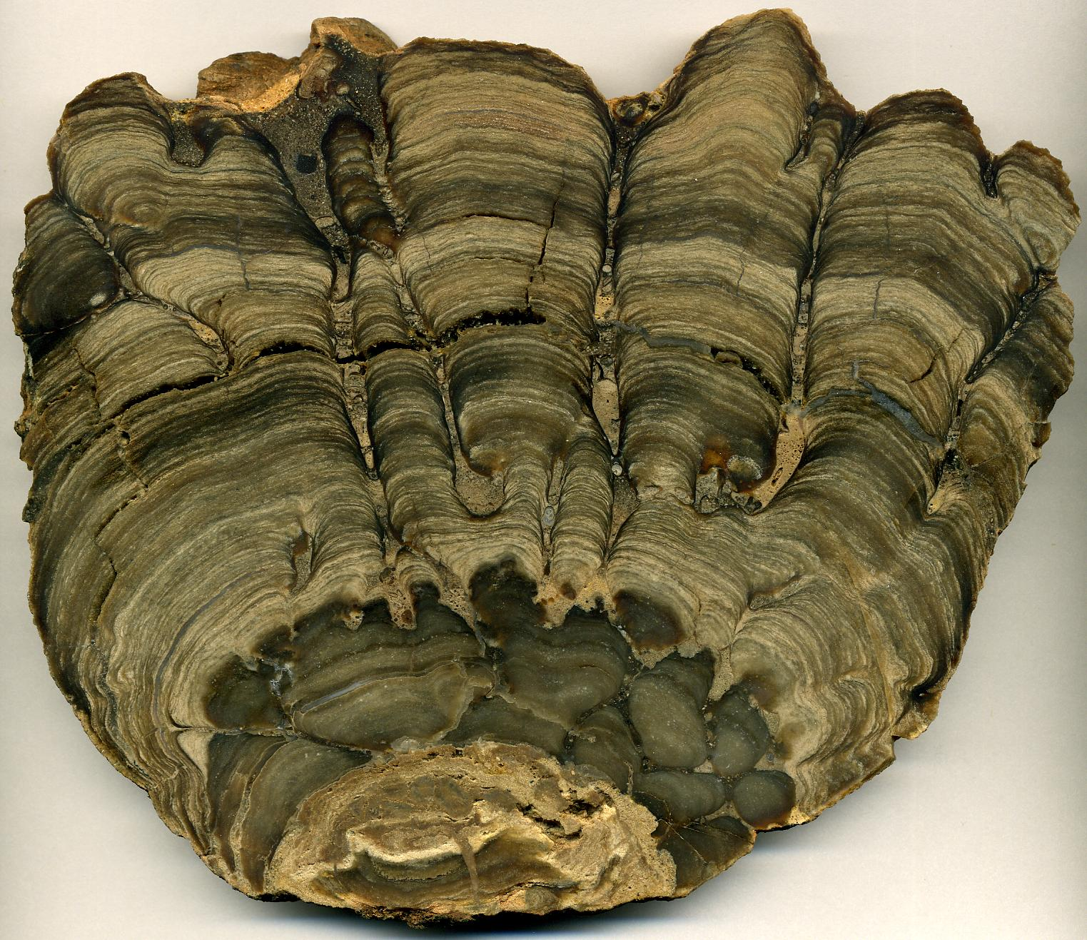 Stromatolite fossil from the Fort Laclede Bed, Laney Member, Green River Formation of south-western Wyoming in USA. It is the preserved fossilised remains of a stromatolite that lived in the ancient Lake Gosuite. This is a cross-sectional slice through the fossil, showing its internal layered structure.